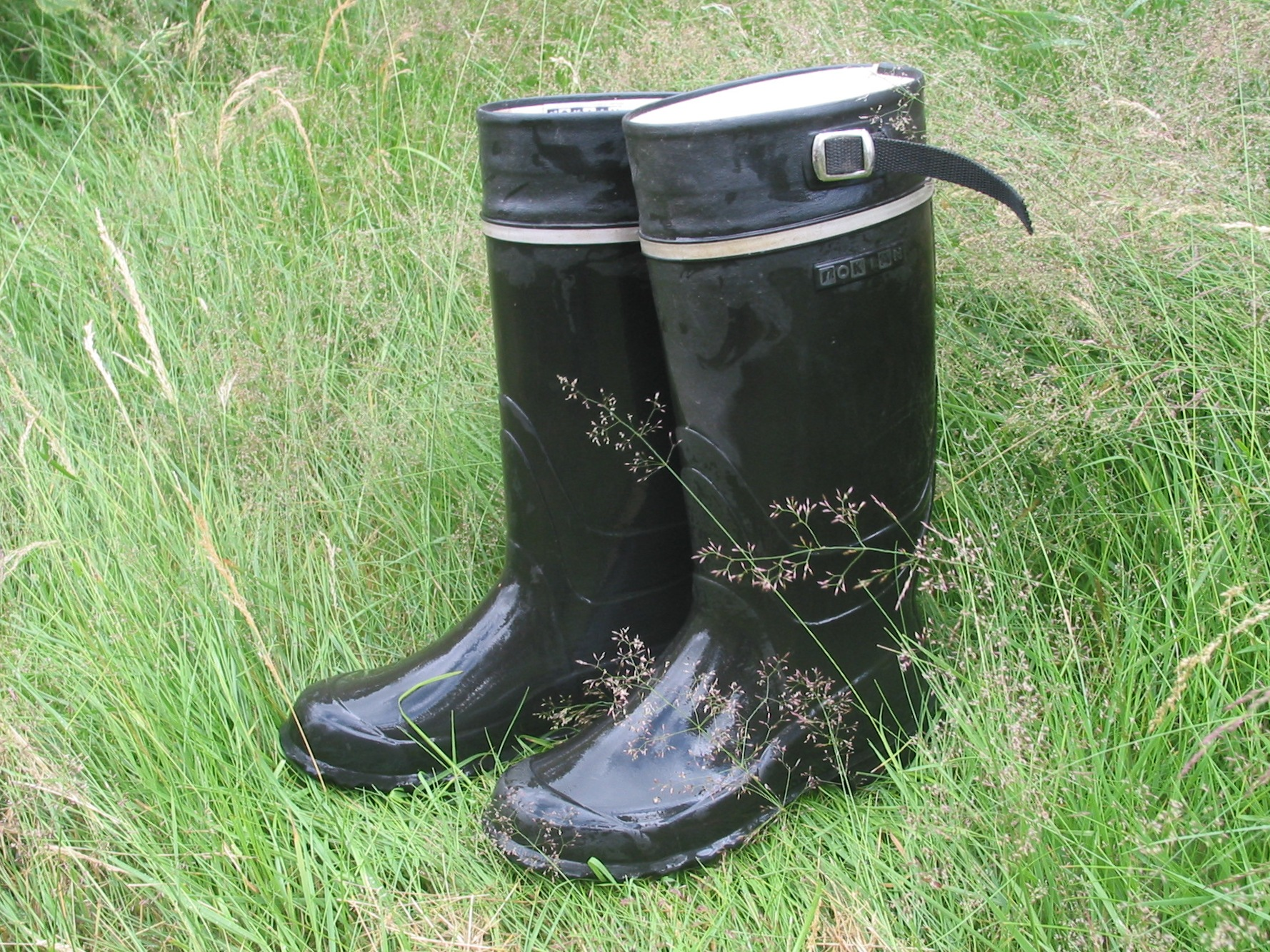 Nokian boots, made by Nokian Footwear, Finland